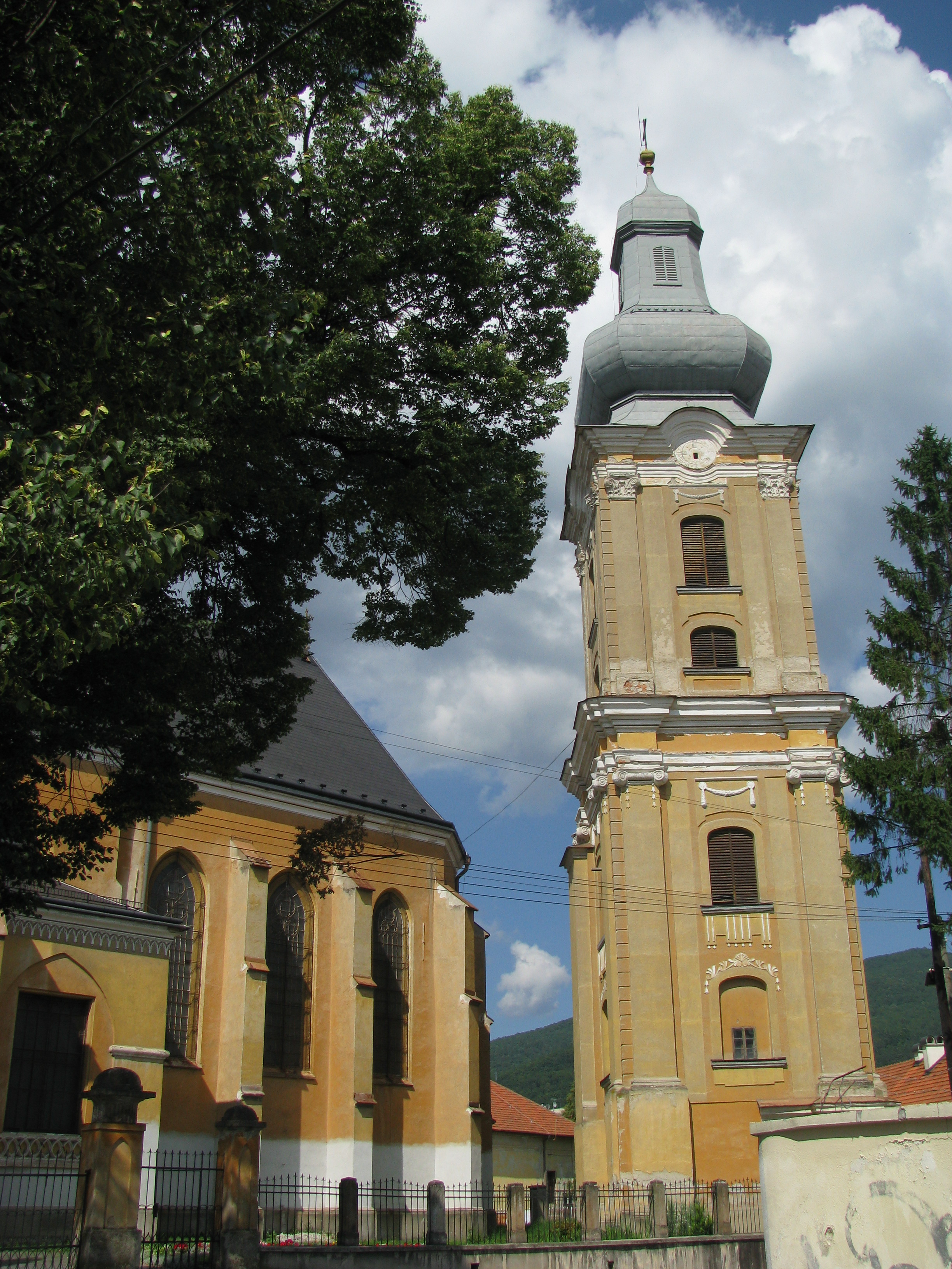 Church in Roznava, Slovakia